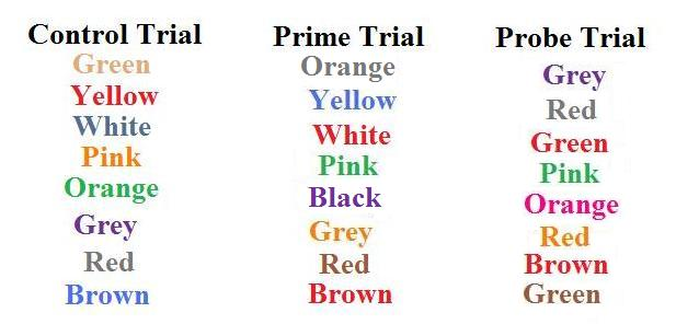 experiment